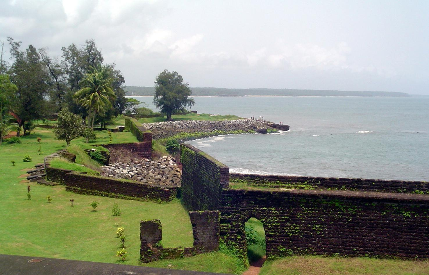 photographed by Pratheepps 09:35, 24 February 2006 (UTC)